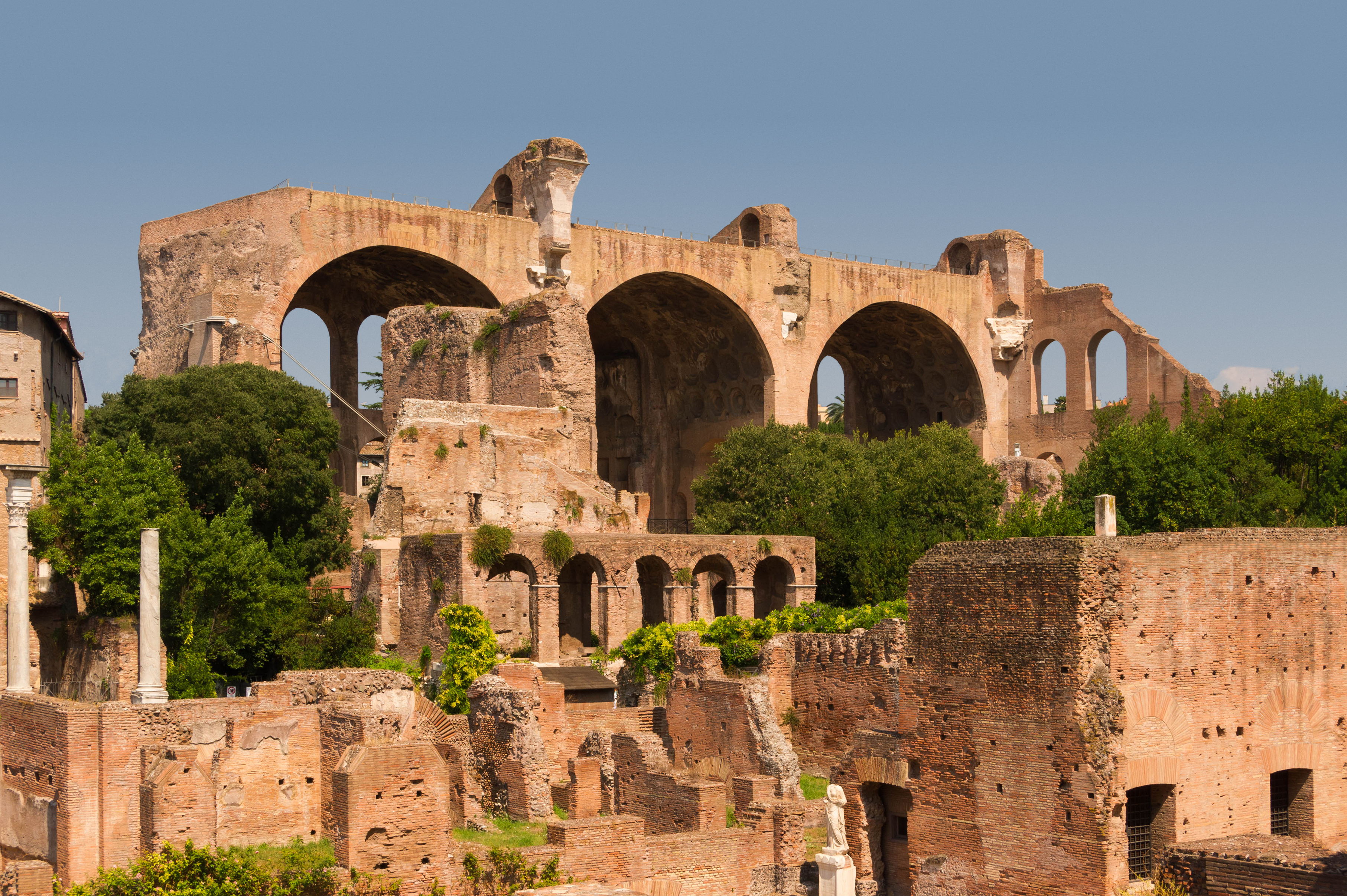 Forum Romanum. In background, the remains of the Basilica of Maxentius and Constantine. Rome, Italy.